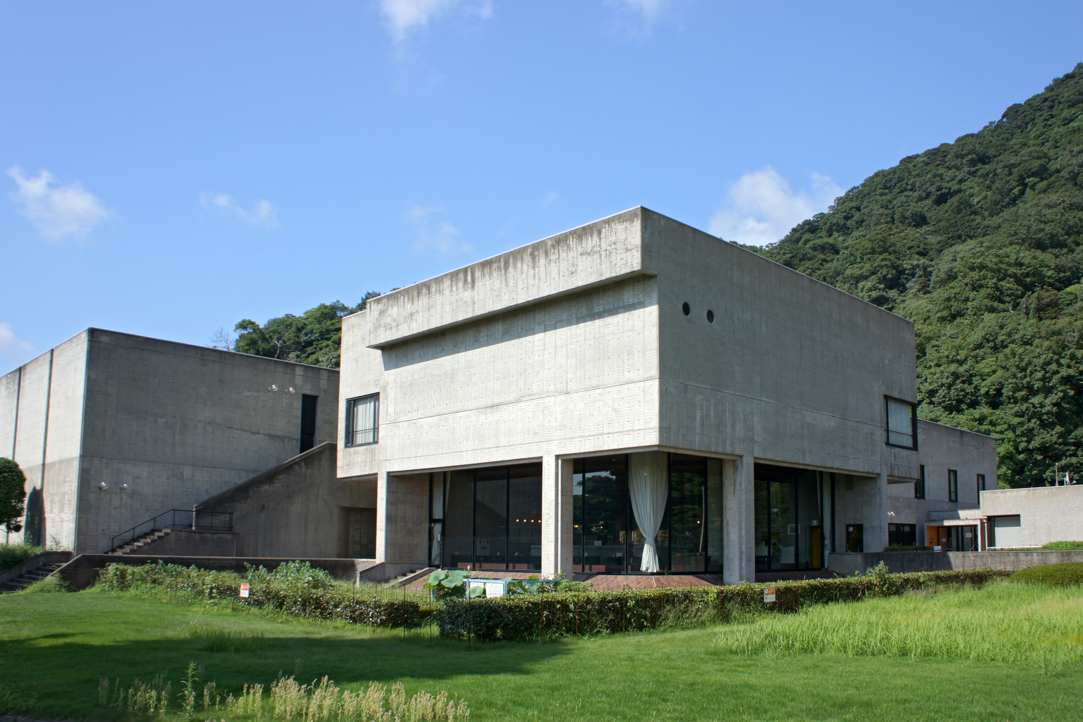 Tottori Prefectural Museum in Tottori, Tottori prefecture, Japan